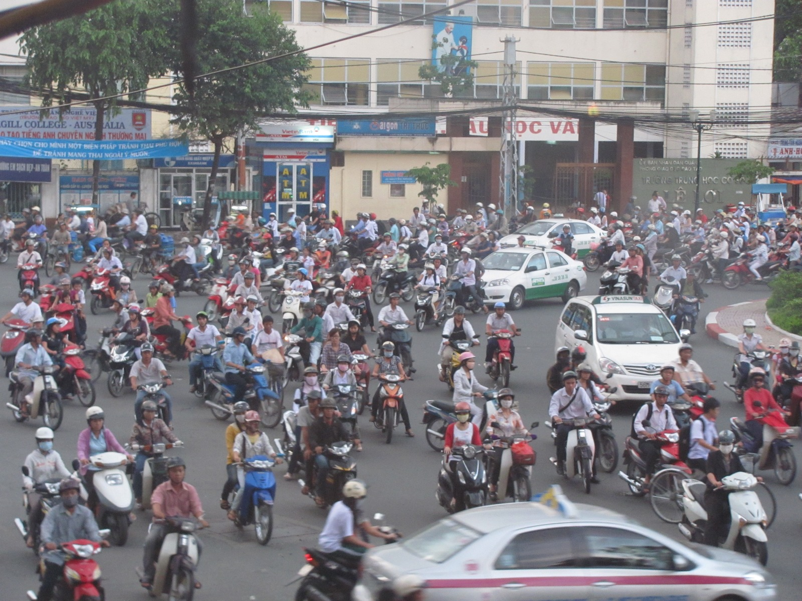 Traffic in HCMC, Vietnam